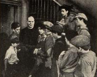 Still from the 1948 film, Fighting Father Dunne Other information for an explanation of the copyright for information regarding public domain